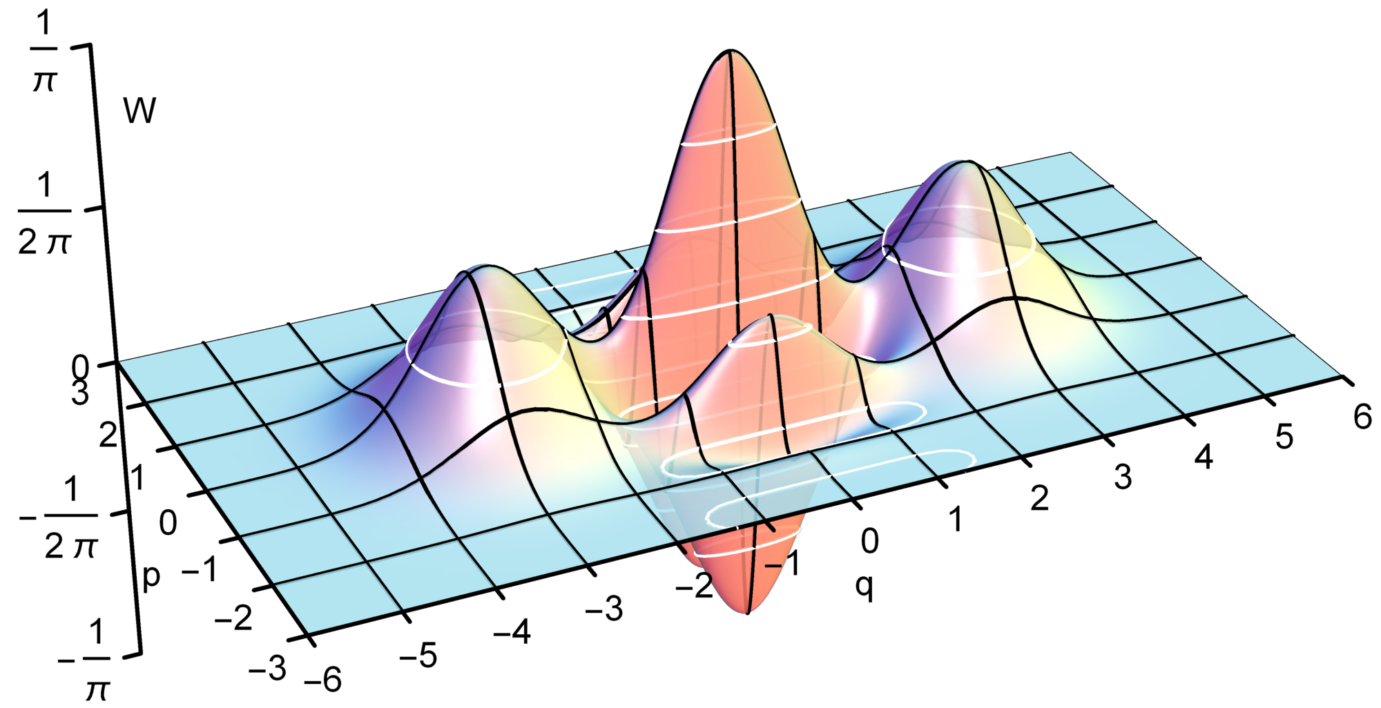 Wigner function of an even cat state with amplitude α=2.0.